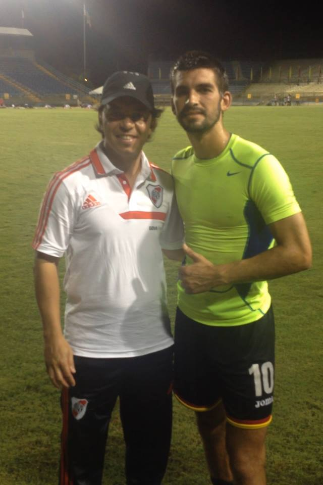 con el muneco gallardo